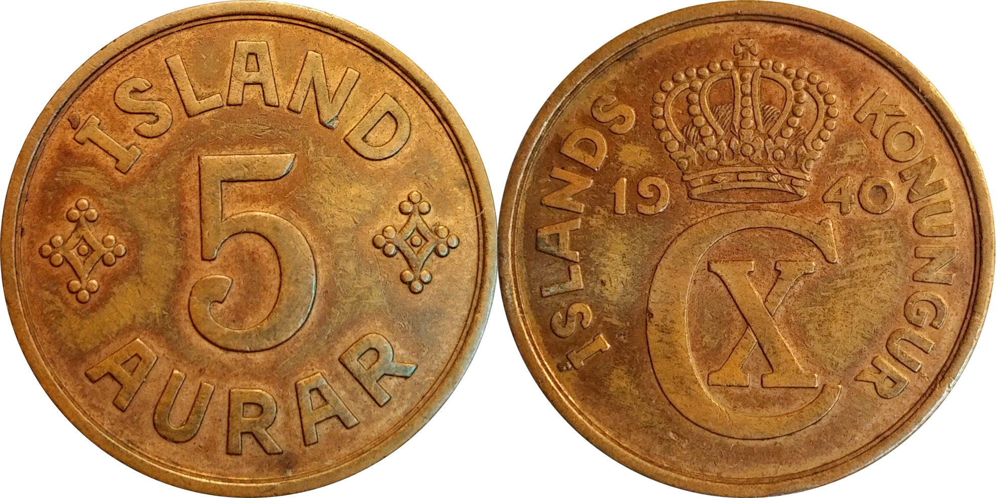 Icelandic coin of 5 aurar (5/100 of a crown/króna), design from 1926.